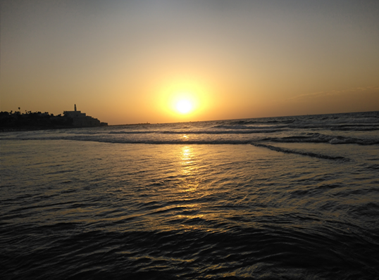 Sunset from Haifa Beach